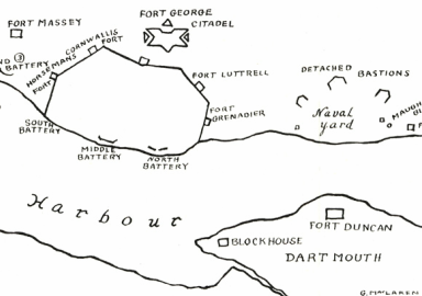 Harry Piers, The Evolution of the Halifax Fortress, 1749-1928. Line Drawing of principal forts, blockhouses, and batteries of Halifax's early defences.